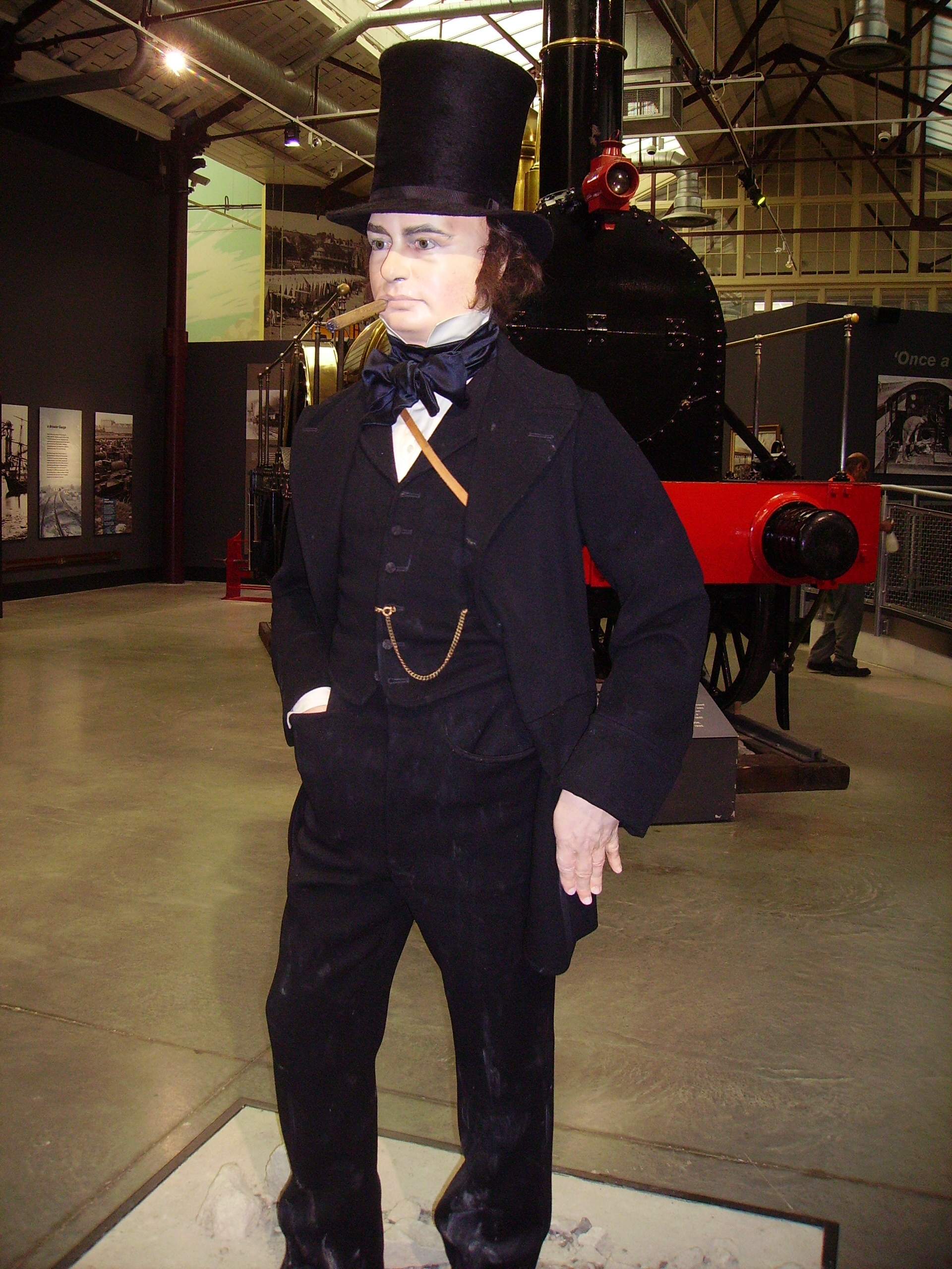 Photographer: User:Ballista Taken in the Steam Museum, Swindon